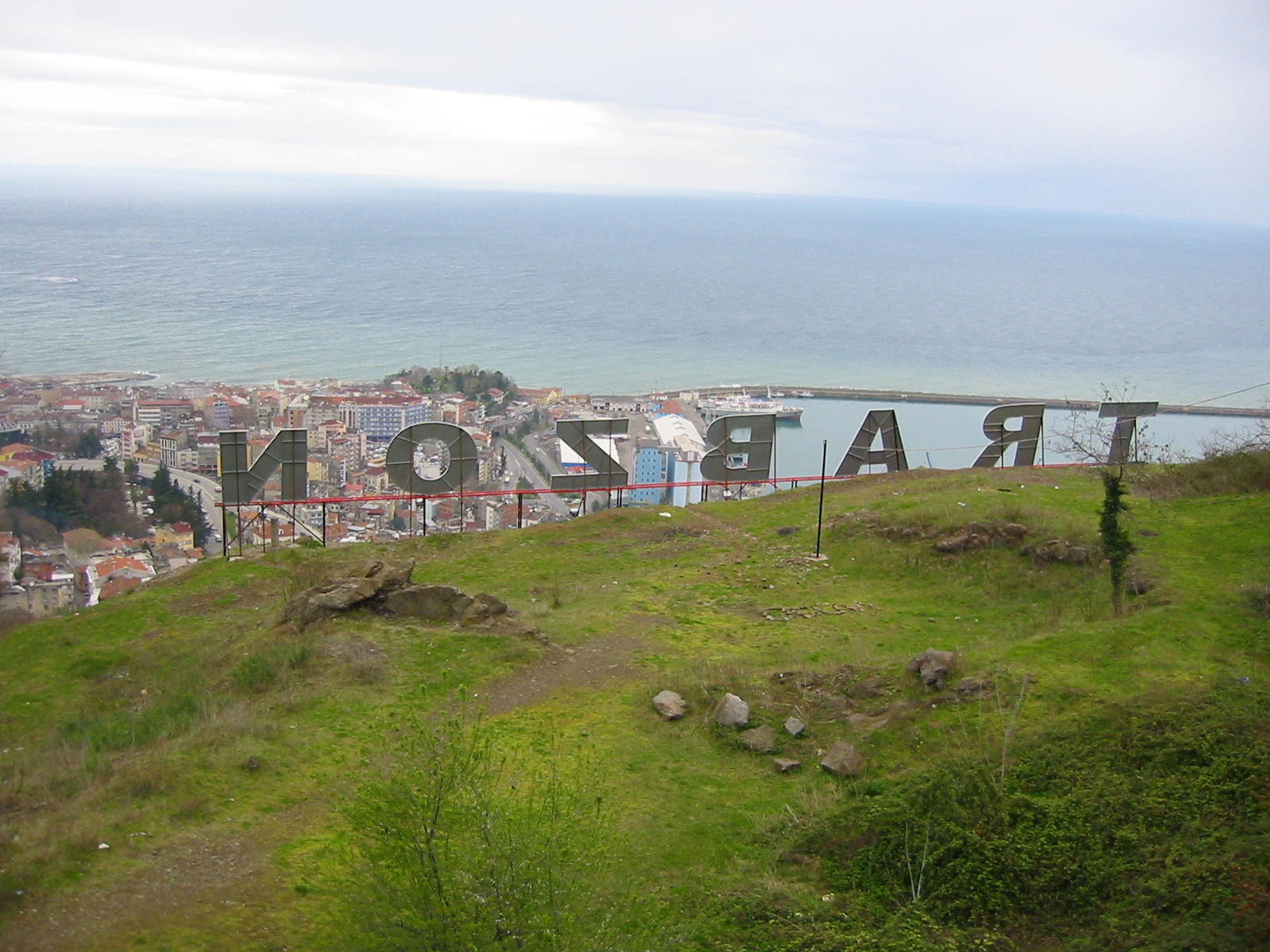 Rear view of the "TRABZON" Hollywood style sign above the city of Trabzon, Turkey.